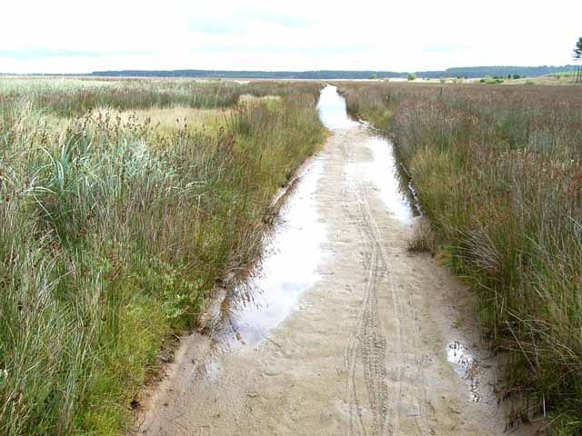 Flooded track across the marshes. North side of Newborough Forest, adjoining the Malltraeth Sands.